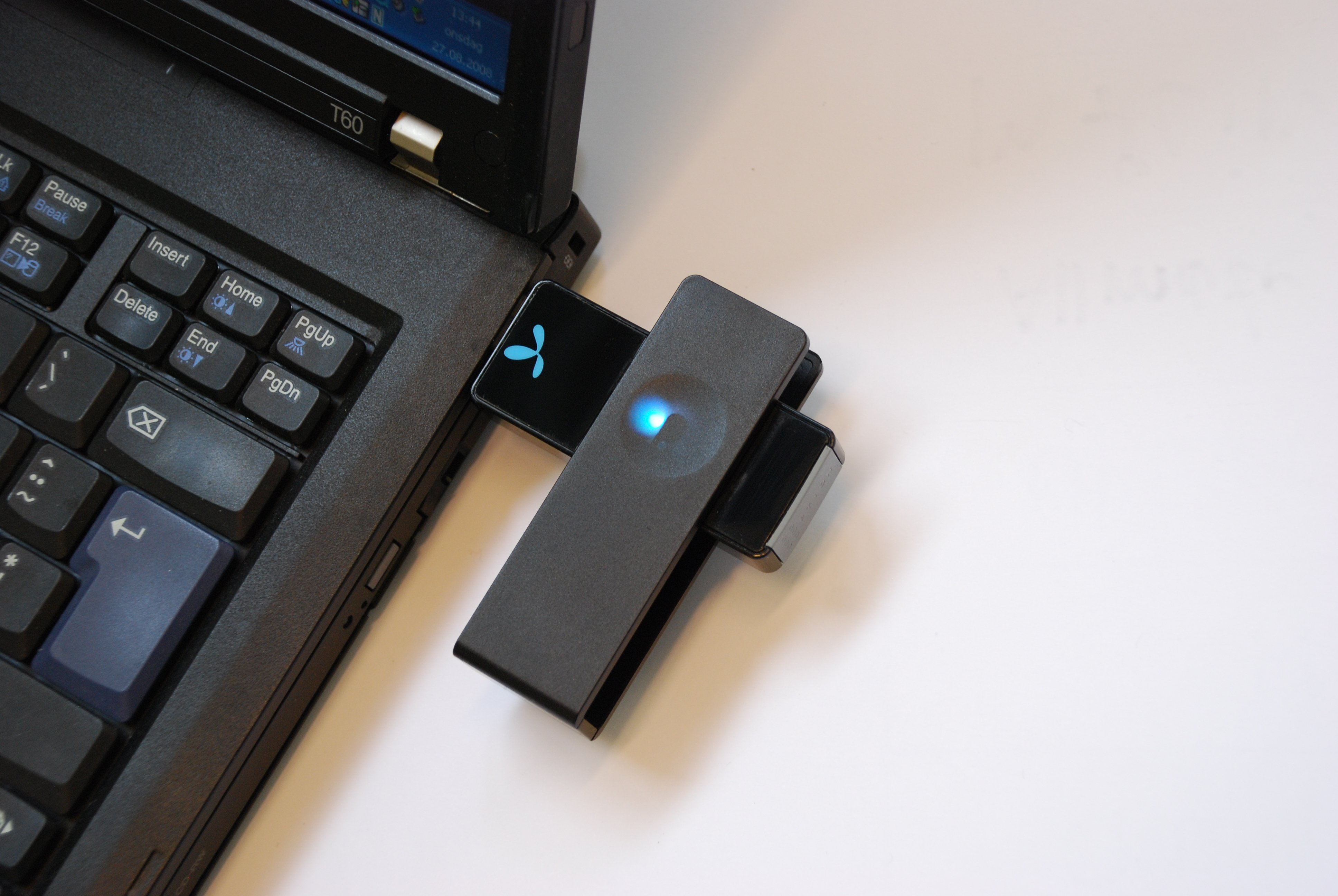 USB modem for PC, 2008. Adaptible for 3G mobile data (UMTS, HSxPA). Telenor version, Norway.